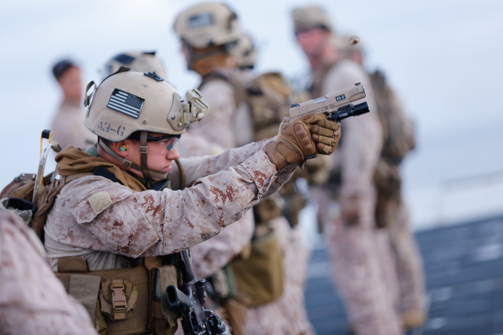 A Marine with the Force Reconnaissance Detachment, 11th Marine Expeditionary Unit, sights in on his target with a Marine Corps Close Quarters Battle Pistol during a close quarters tactics range on the flight deck of the USS San Diego as part of Certification Exercise (CERTEX), off the coast of Southern California, June 19, 2014. CERTEX is the final evaluation of the 11th MEU and Makin Island Amphibious Ready Group prior to deployment. The evaluation requires the Marines and sailors to plan and conduct integrated missions simulated to reflect real-world operations. (U.S. Marine Corps photo by Cpl. Jonathan R. Waldman/Released)